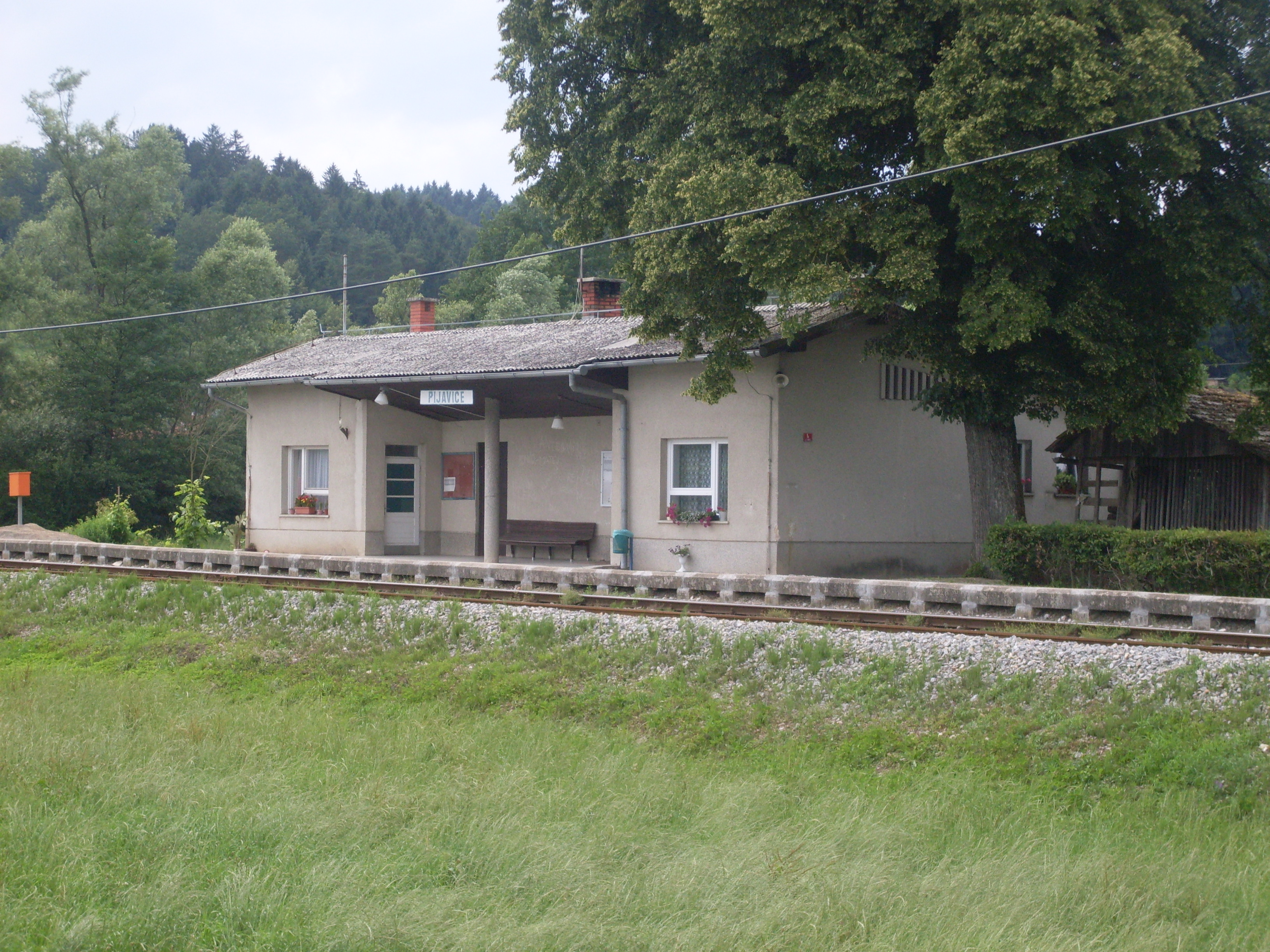 Railway halt PijaviceSlovenščina: Železniško postajališče Pijavice